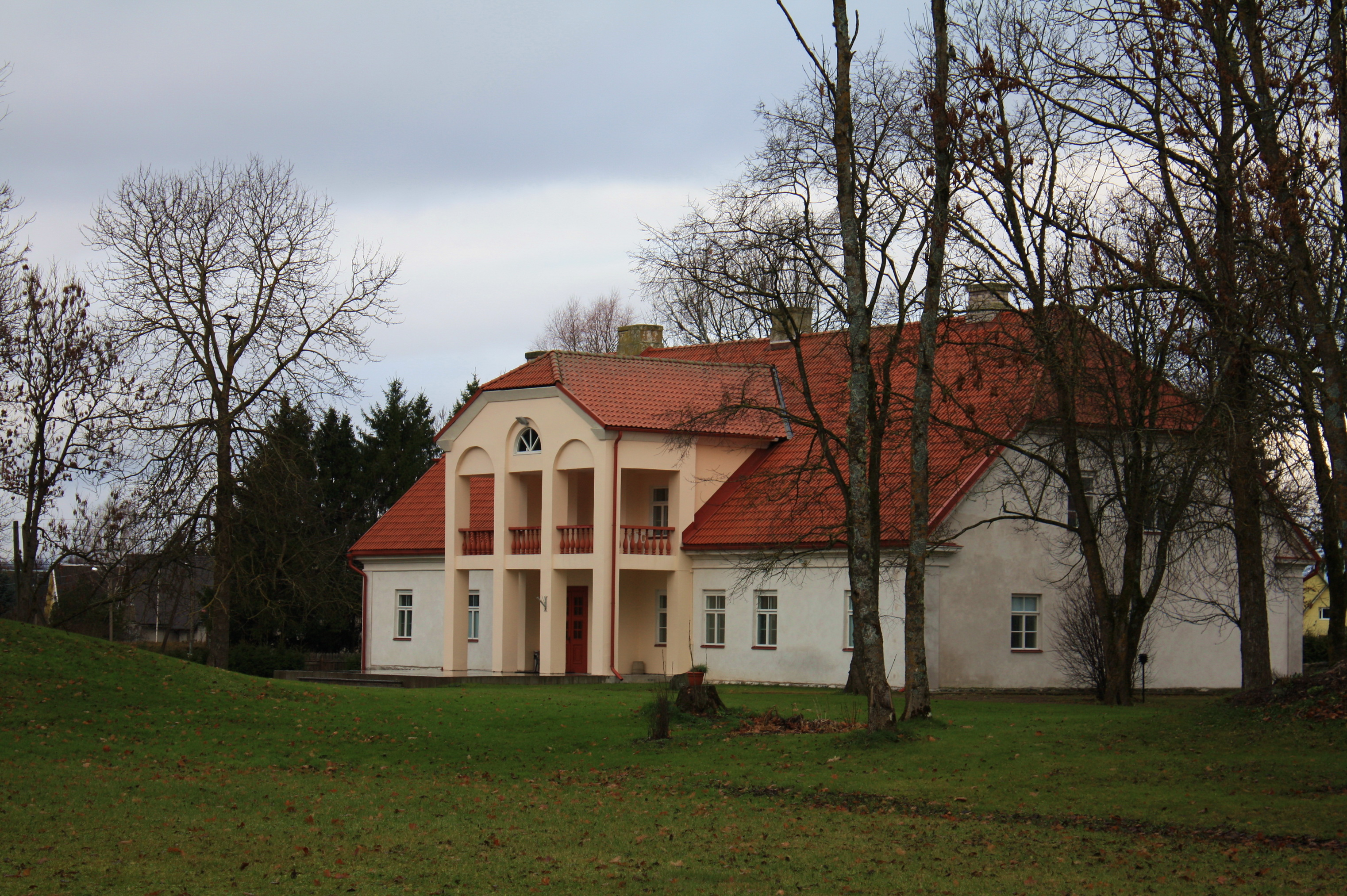 Nabala manorhouse